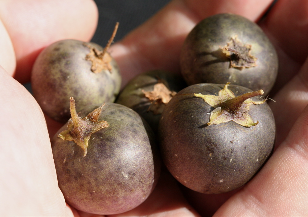 Mature fruit of Solanum tuberosum (Potato)